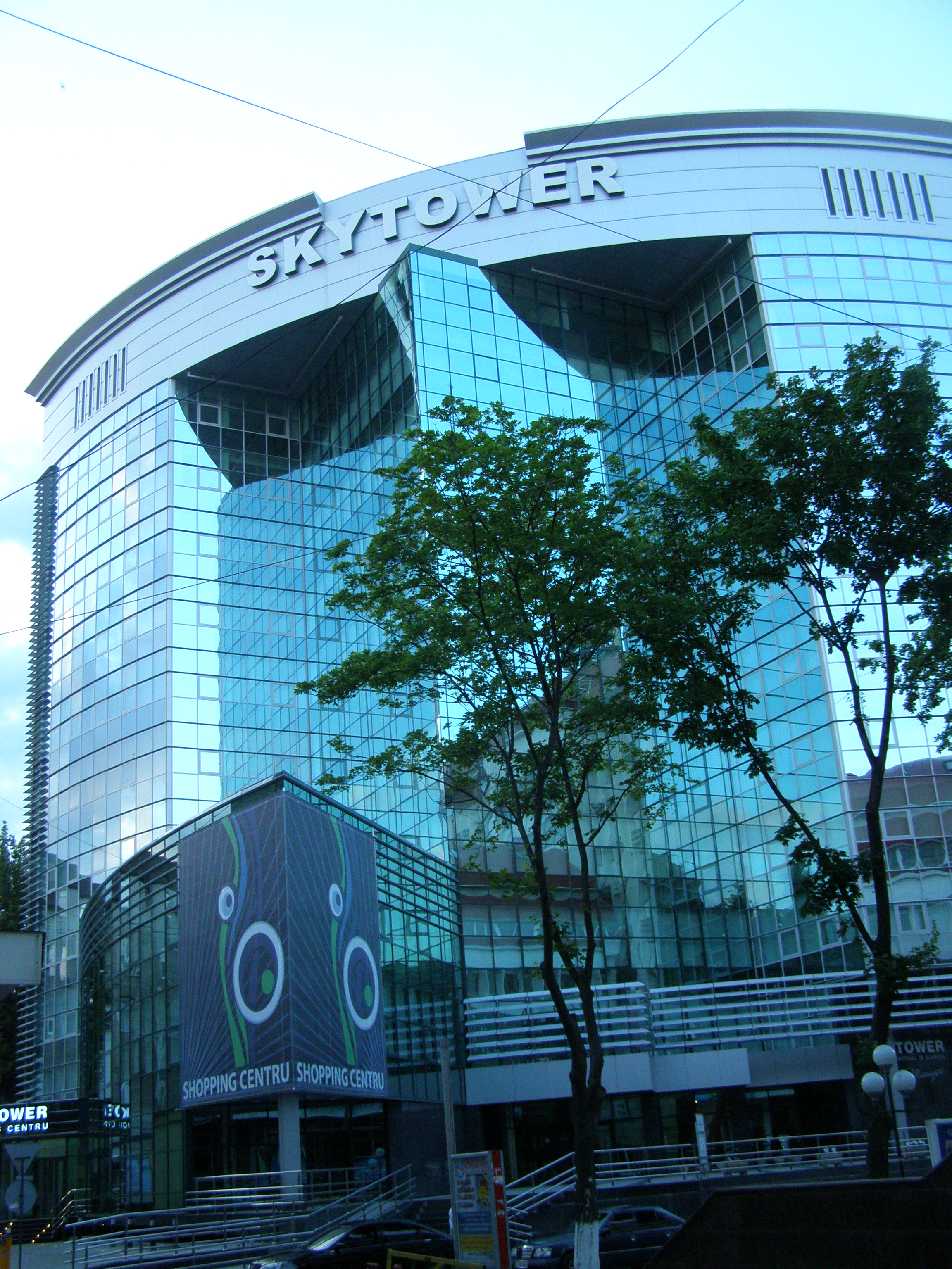 International Business Centre SKYTOWER, in Chisinau (Moldova)